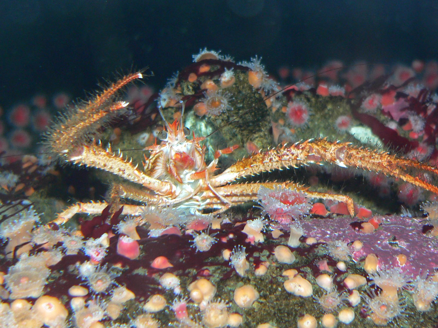 Photo of Munida quadrispina at the Birch Aquarium in San Diego